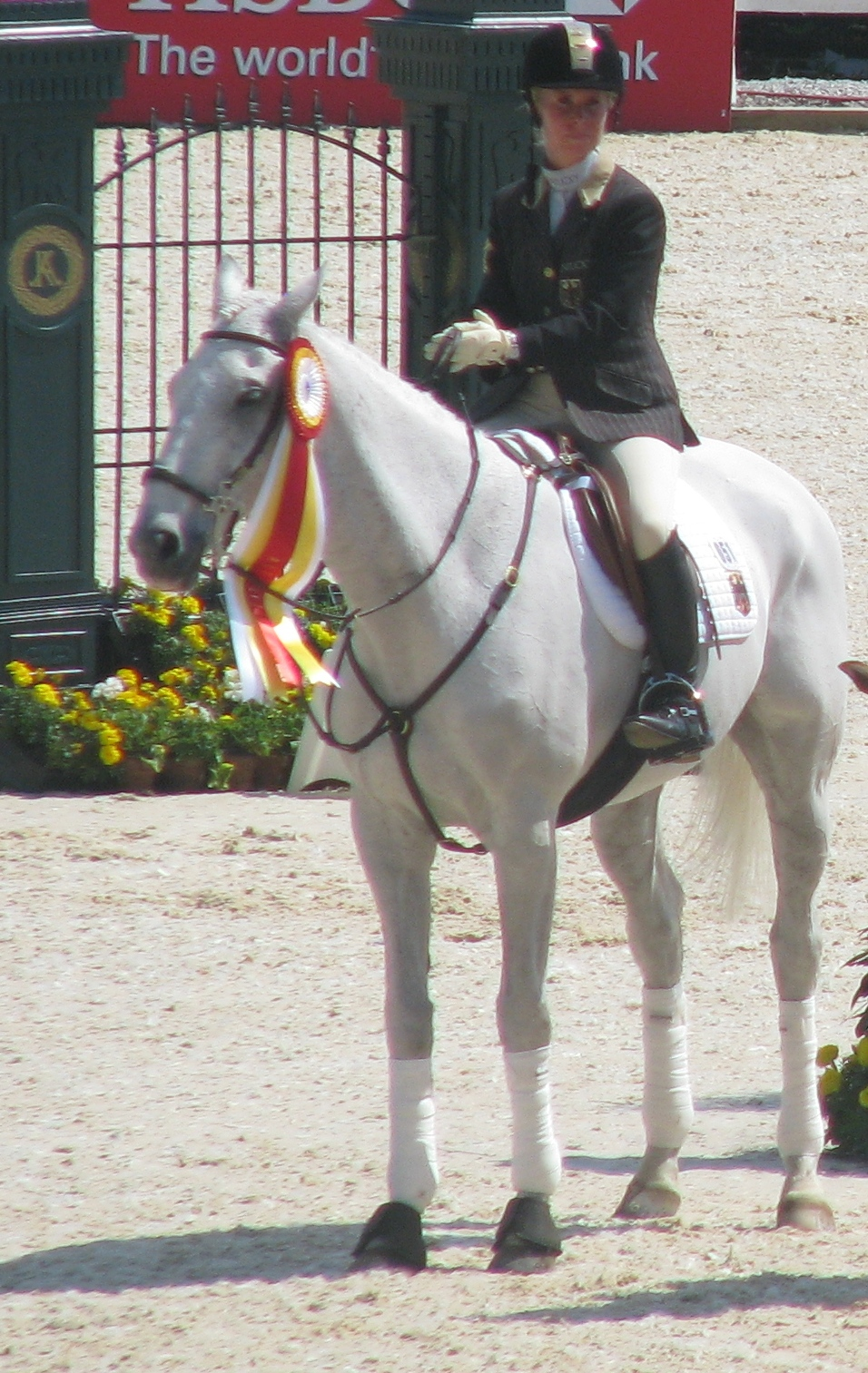 Rolex Kentucky Three Day Event (CCI 4*) 2009, presentation ceremony - Bettina Hoy with Ringwood Cockatoo (Irish Sport Horse[1])